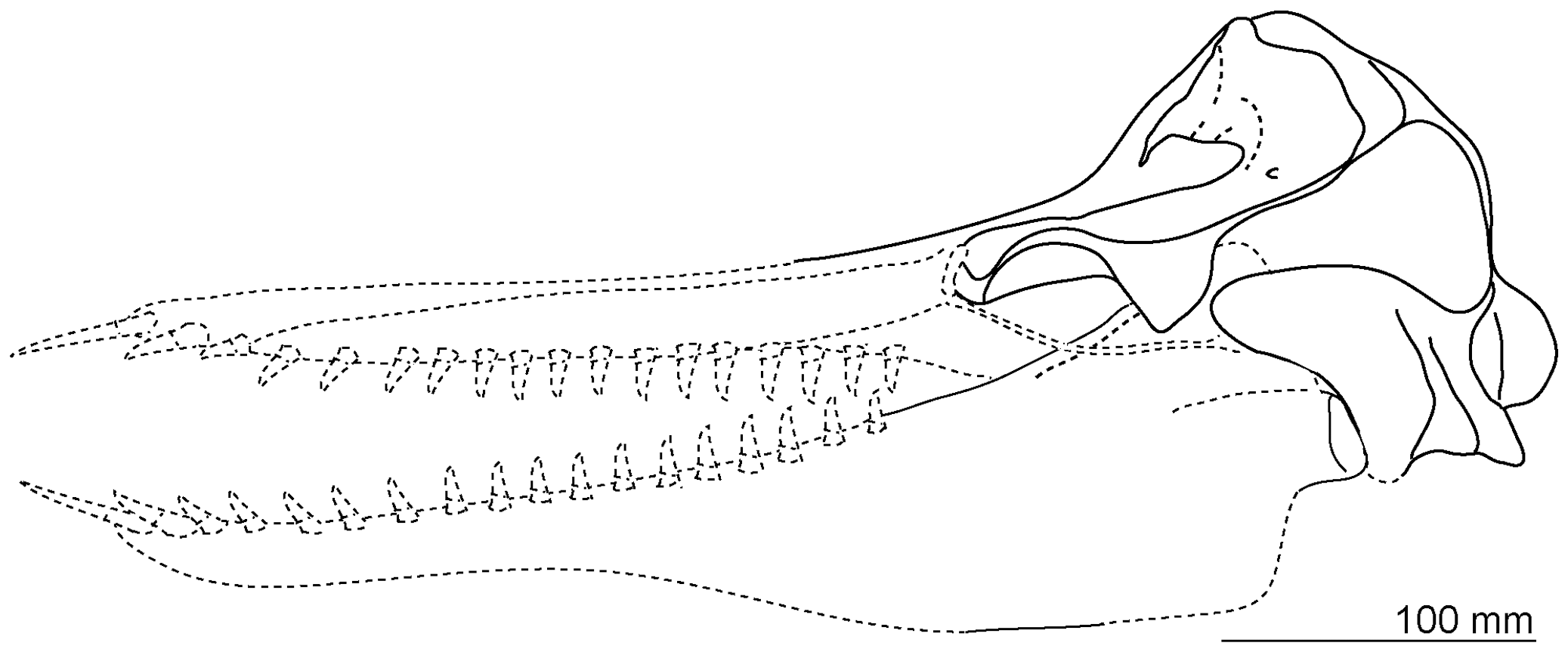 Reconstructed skull of Otekaikea marplesi. The anterior of the rostrum and mandibles were reconstructed based on the sister taxon, Waipatia maerewhenua.